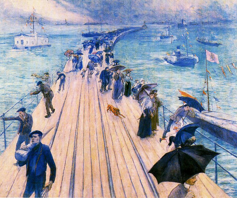 Passage to the Old Lighthouse at Portugalete